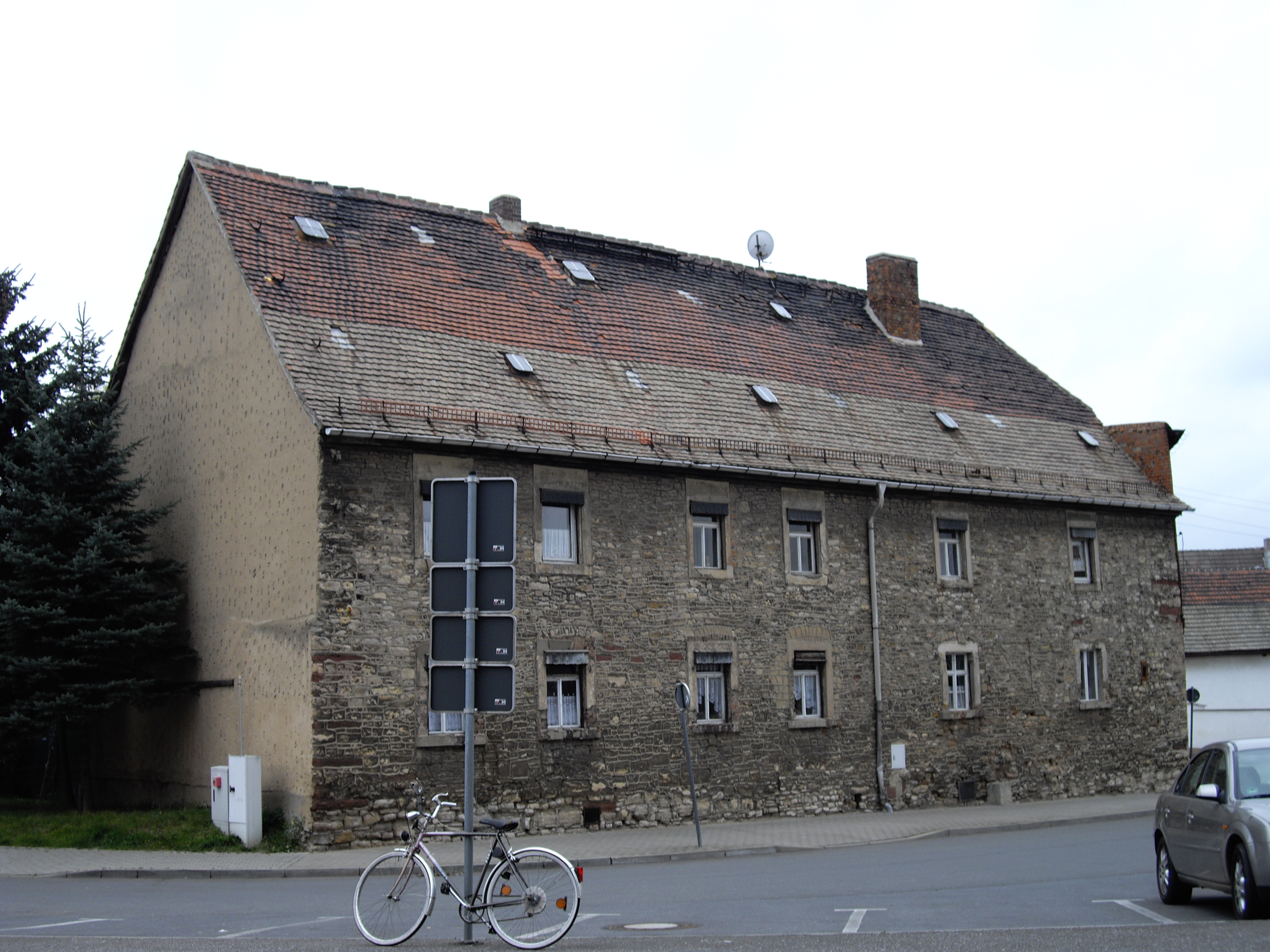 an old house in Siersleben,Germany